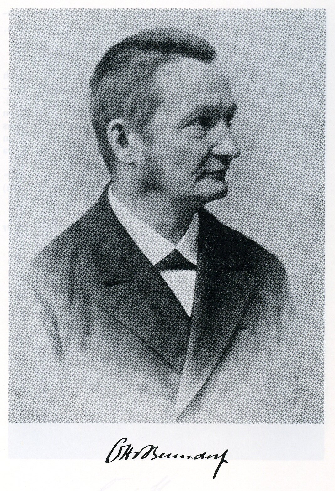 Austrian Archaeologist Otto Benndorf (1838-1919), founder of the Austrian Archaeological institute